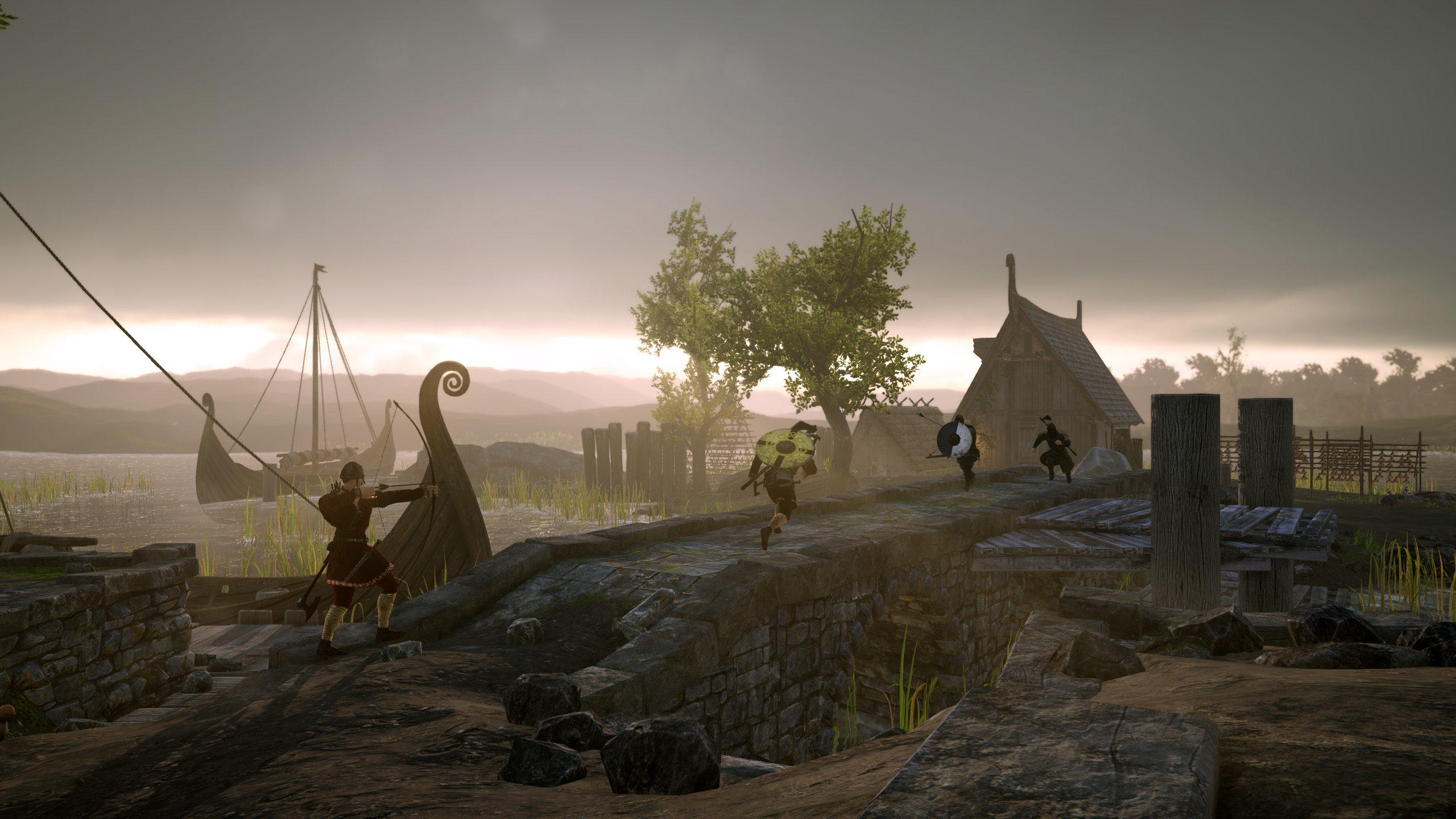 This is a screen of Gameplay of the video game War of the Vikings. The screen was supplied for use on the wiki by John Rickne Community developer at Paradox Interactive.